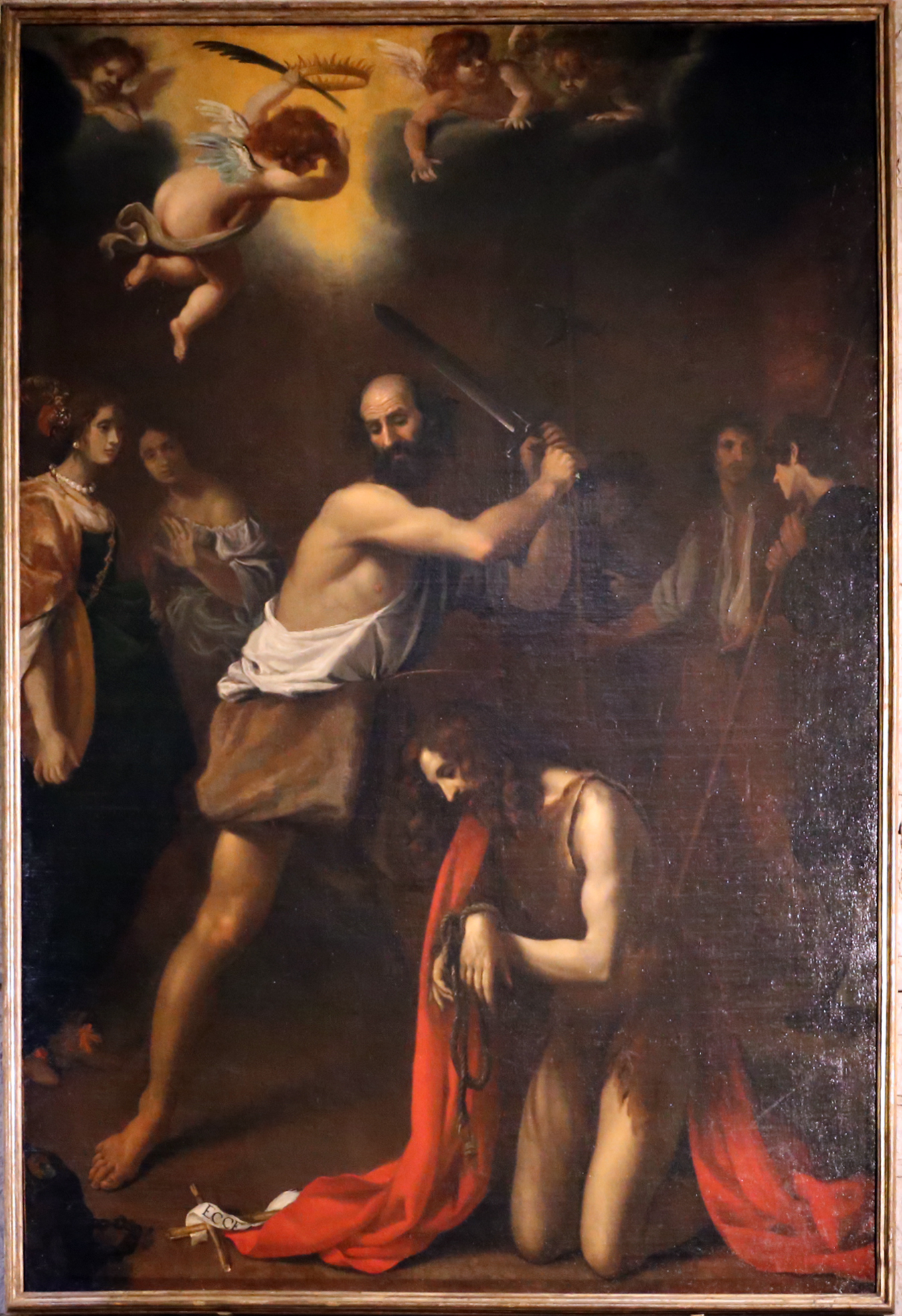 San Pietro a Ripoli